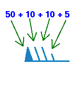 Wind plotting with barbs : Flag represent 50 kts, Line: 10 kts and Half-Line: 5 kts. A circle is for calm wind. The wind direction is from the wind barbs to the end of the hamp.